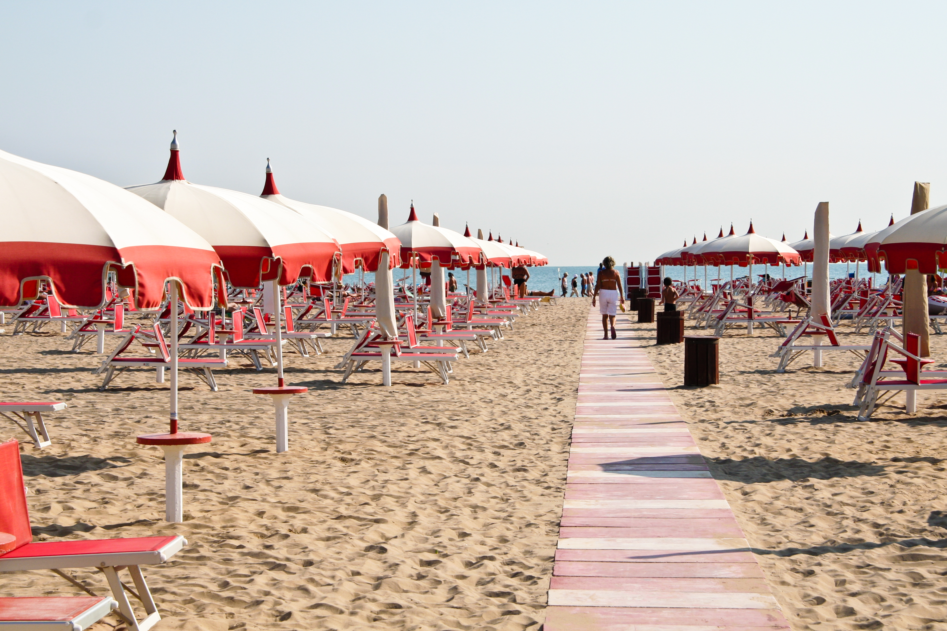 Rimini Beach